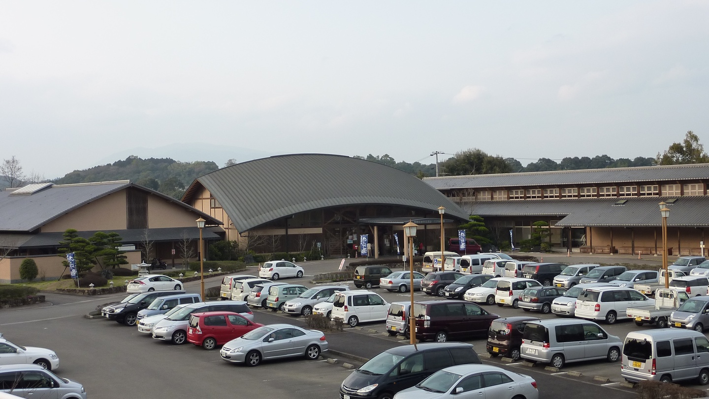 Takanabe Meirin Spa (Miyazaki, Japan)